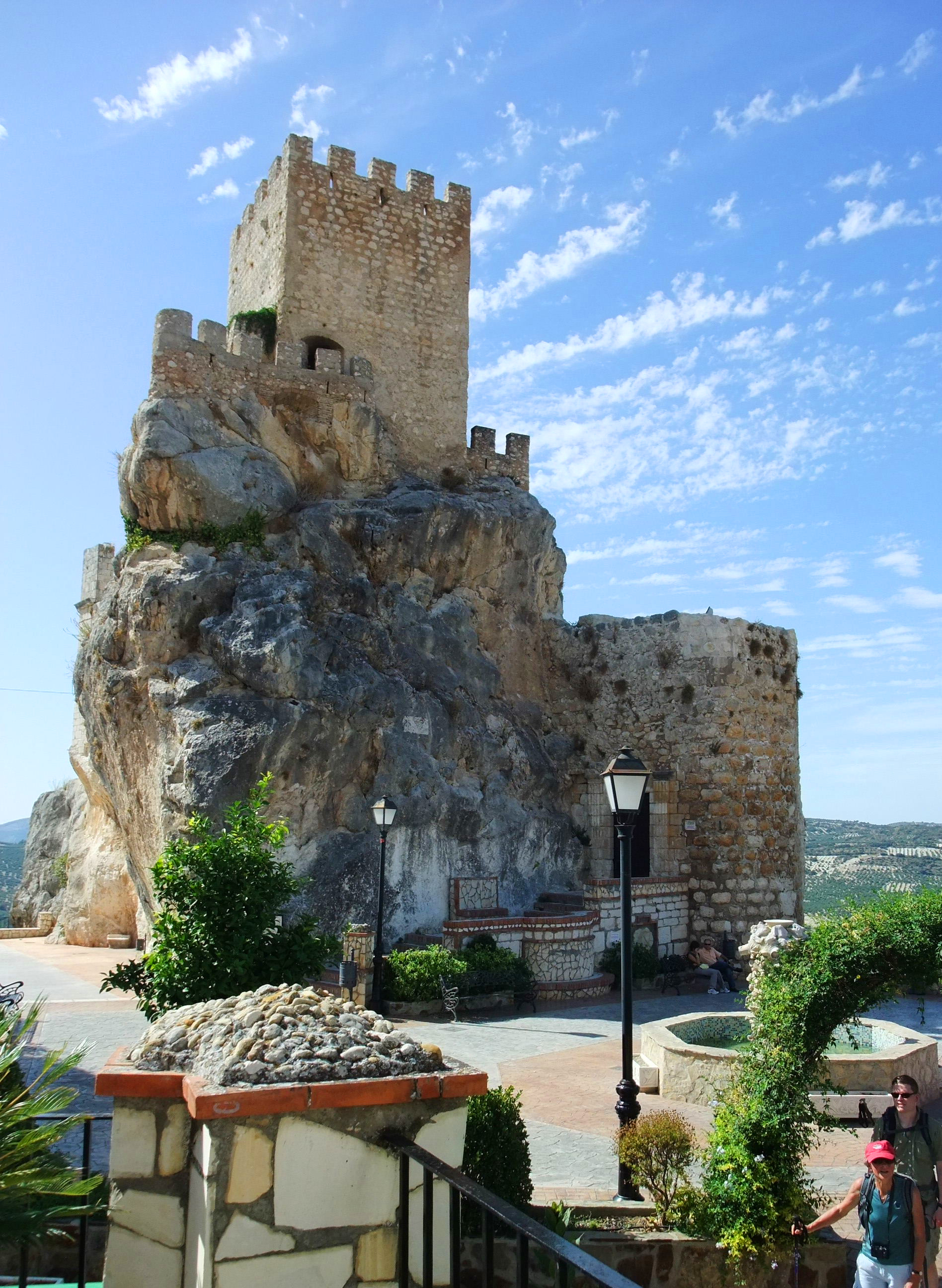 Castle of Zuheros, Province Córdoba in Spain